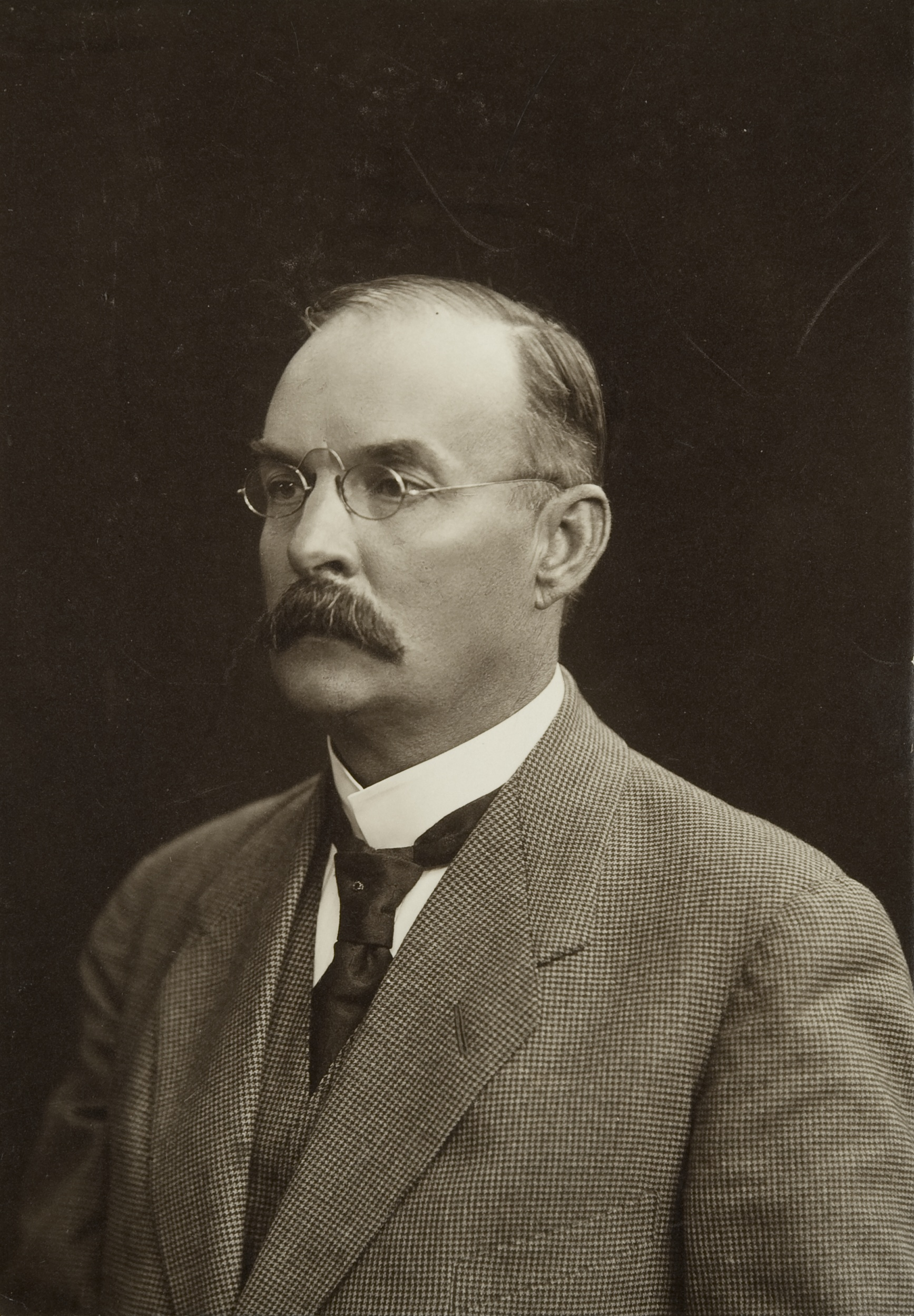 Photograph of the Finnish chemist and professor Ossian Aschan (1860–1939).